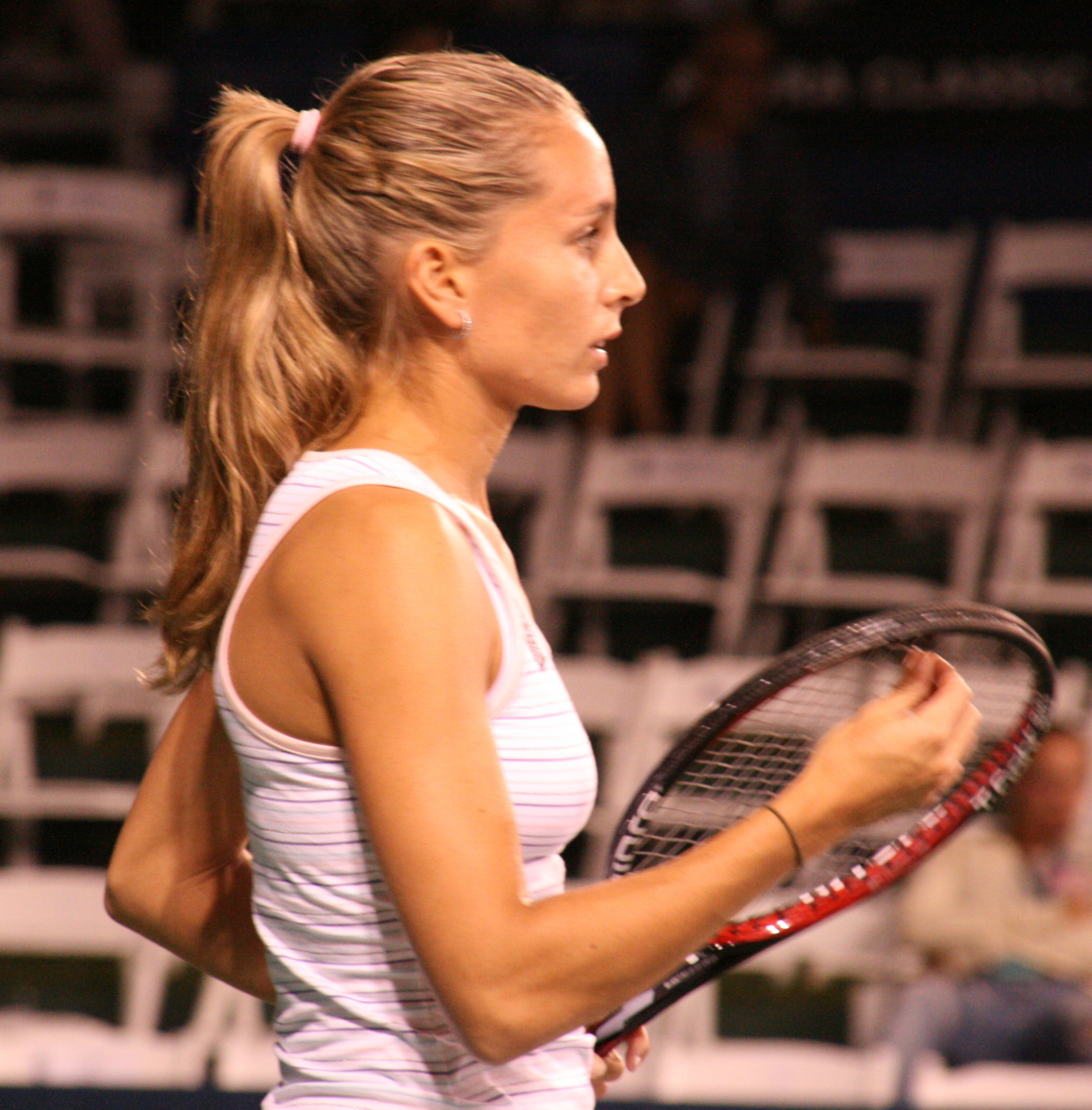 Gisela Dulko at the 2007 Acura Classic.